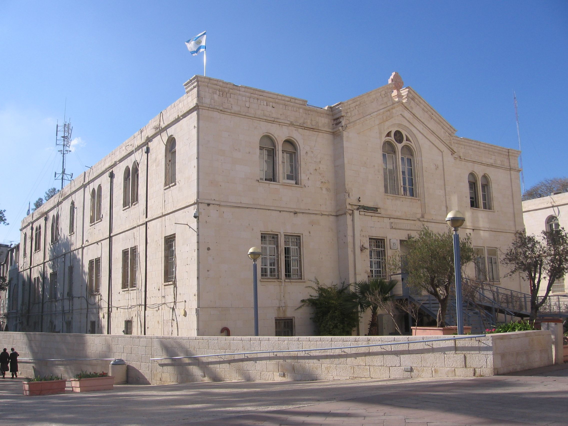 Avichail Building, Jerusalem.